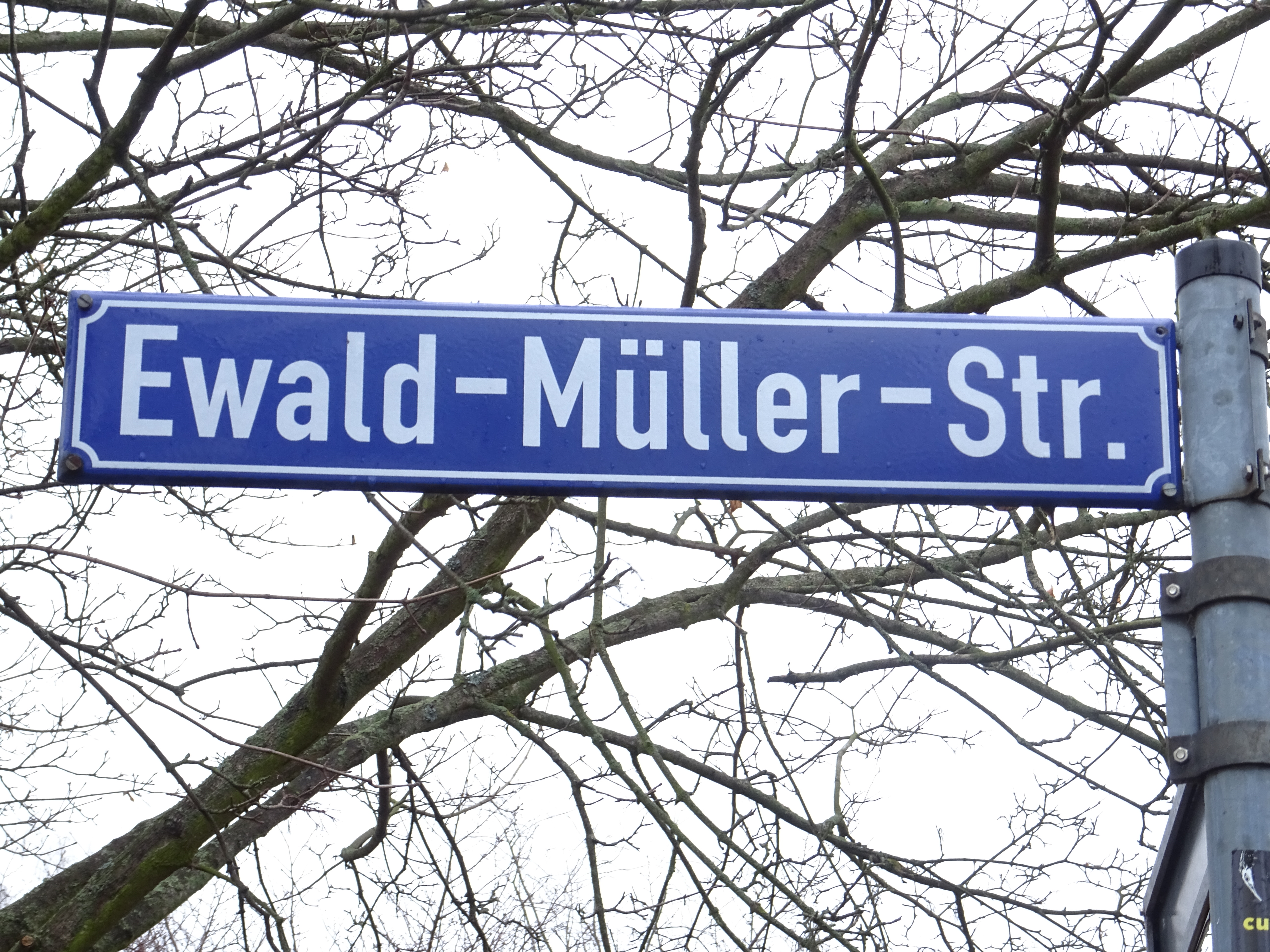 Street sign of Ewald-Müller-Straße in Cottbus